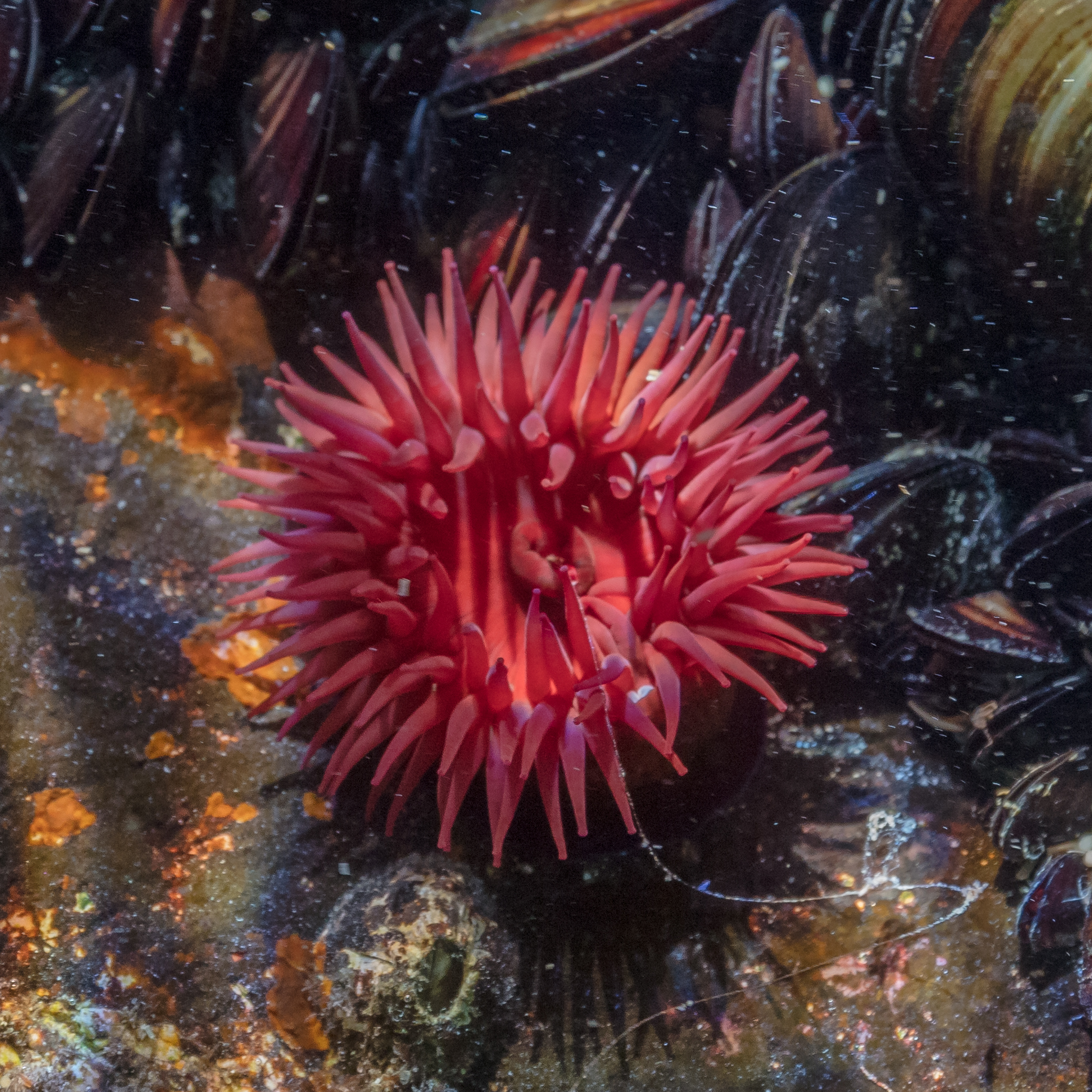 Beadlet anemone (Actinia equina), Setúbal, Portugal